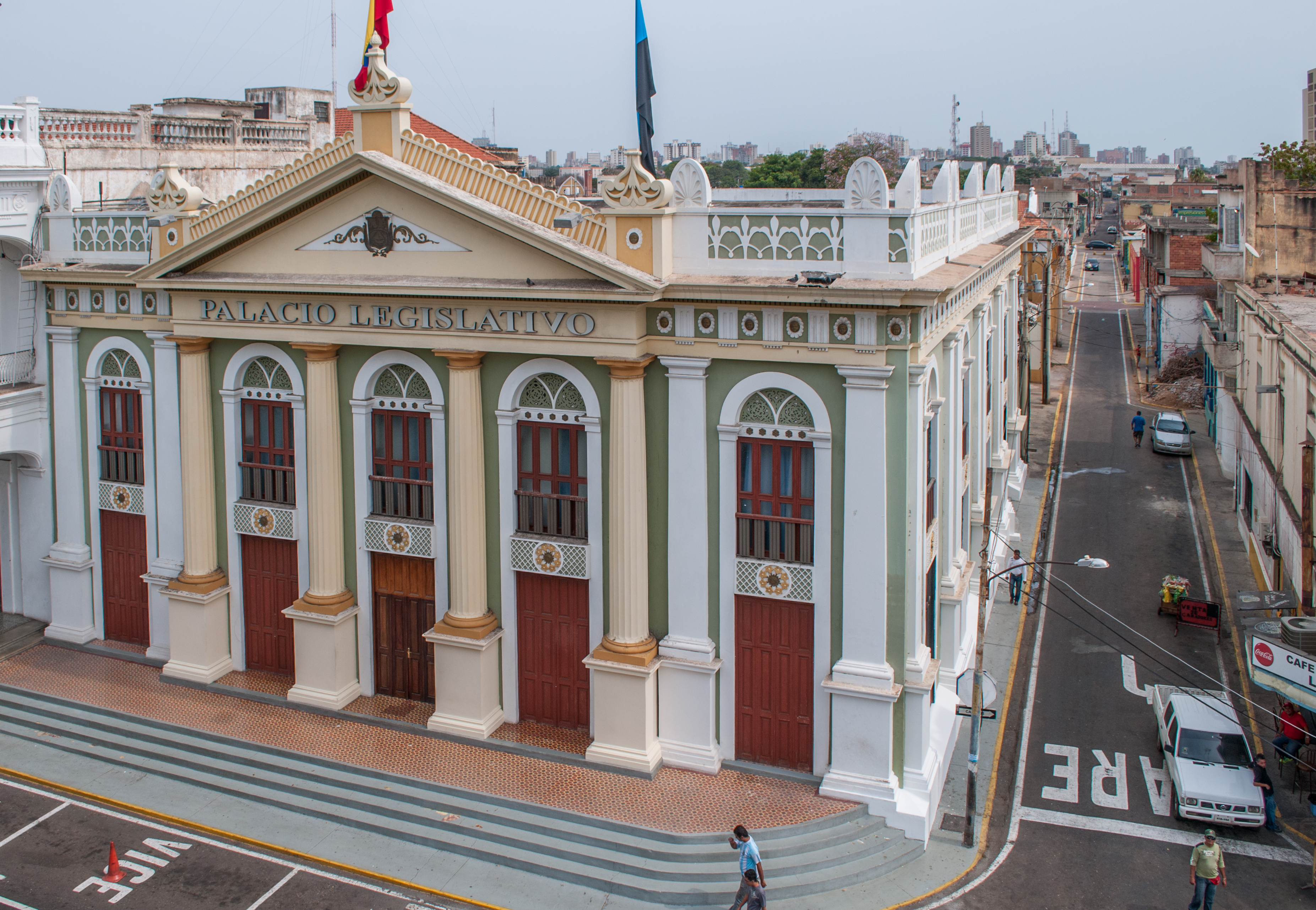 Legislative Palace Maracaibo, Venezuela